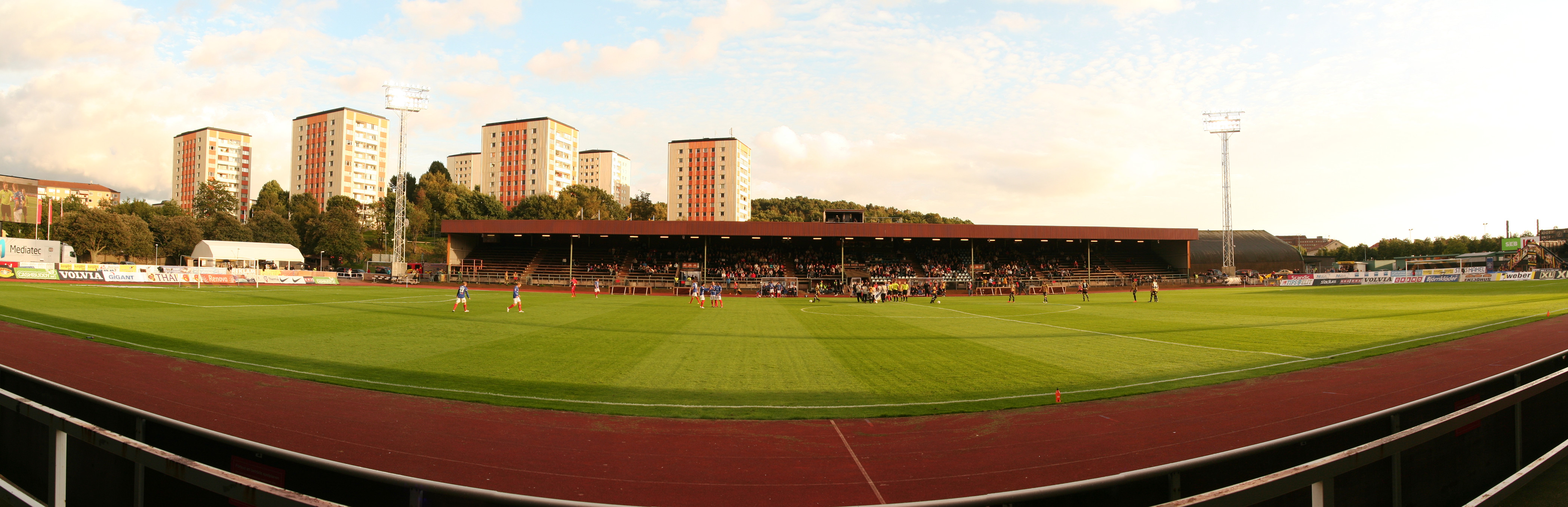 Rambergsvallen in Göteborg, Sweden. Photo from the northern grandstand before the match between BK Häcken and Åtvidabergs FF.